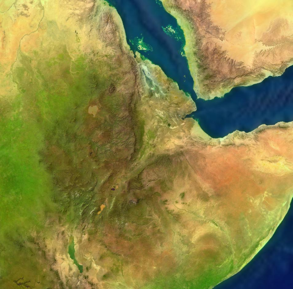 Ethiopia. Satellite view.